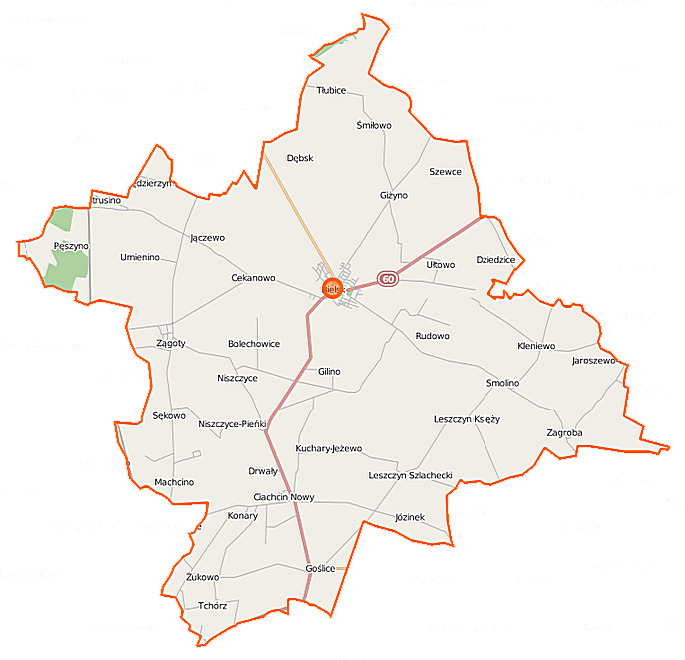 Map of Gmina Bielsk, Poland This map of Bielsk (gmina) was created from OpenStreetMap project data, collected by the community. This map may be incomplete, and may contain errors. Don't rely solely on it for navigation.